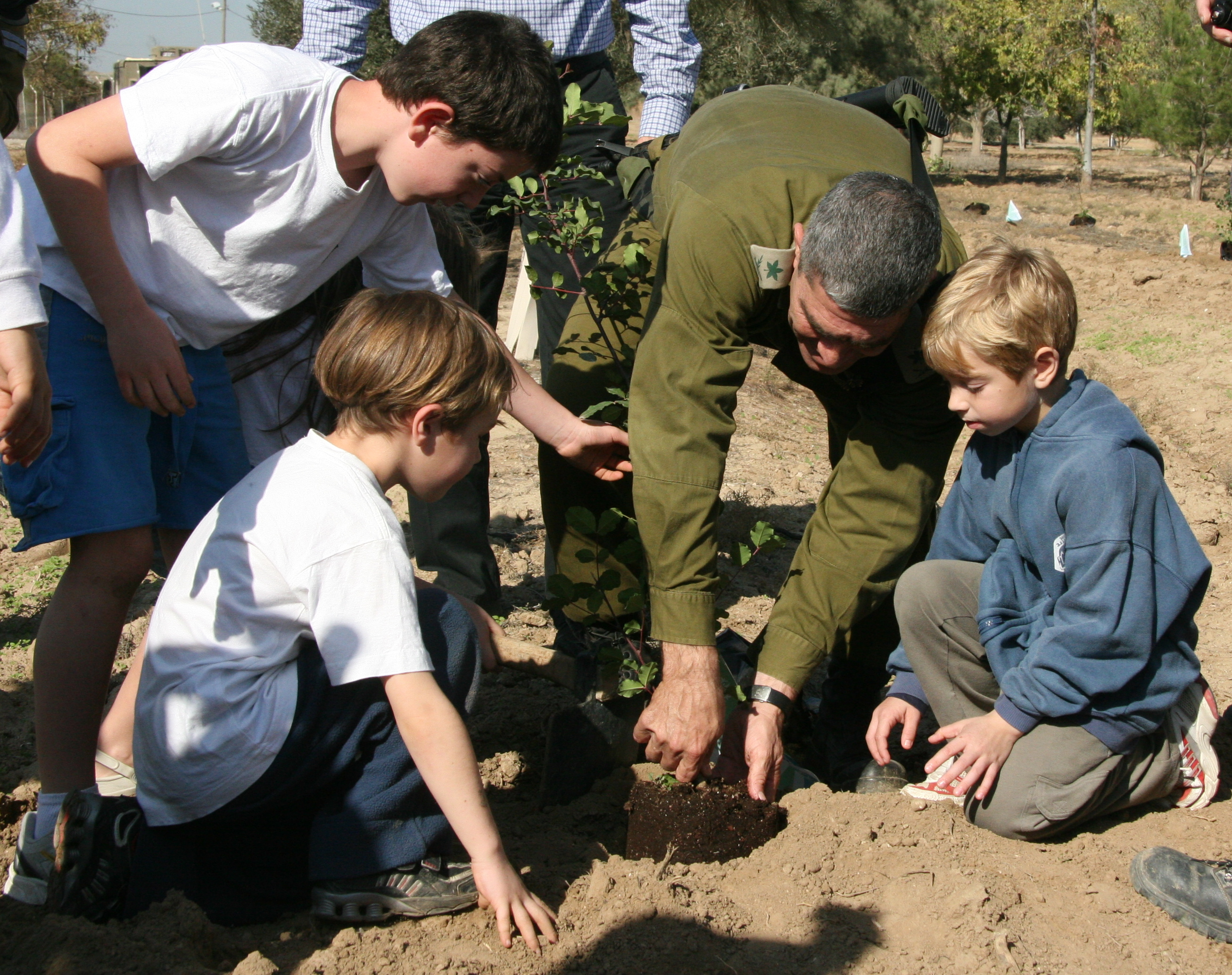 January 20, 2011. OC Southern Command, Maj. Gen. Tal Russo, plants the first trees of the Strategic Security Forestation Project together with the residents of the towns and villages surrounding the Gaza Strip. For more details, see our blog.